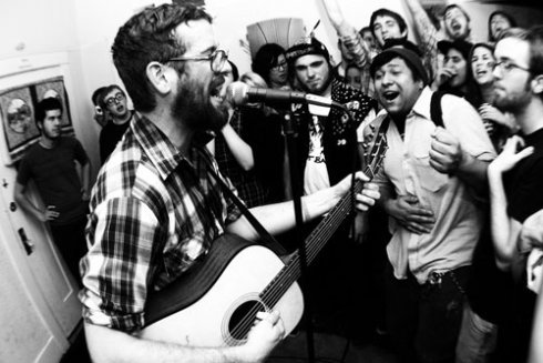 Andrew Jackson Jihad.